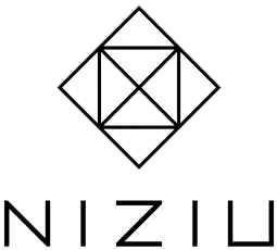 Logo of NiziU, a Japanese girl group created by JYP Entertainment and Sony Music Entertainment Japan